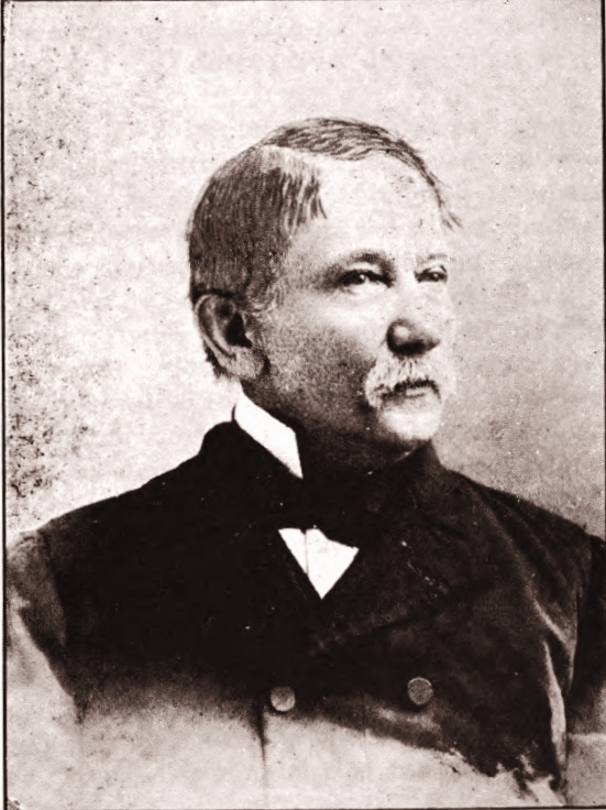 George Alexander Porterfield, 1822-1919, a colonel in the Confederate States Army, conspicuous in the first land battle of the American Civil War, at Philippi, WV, June 3, 1861; Published in The History of Barbour County, West Virginia: From Its Earliest Exploration to the Present Time, by Hu Maxwell, Acme Publishing Co., Morgantown, WV, 1899, p. 253.